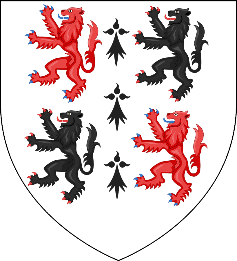 Coat of arms of the Ó Donnagáin.